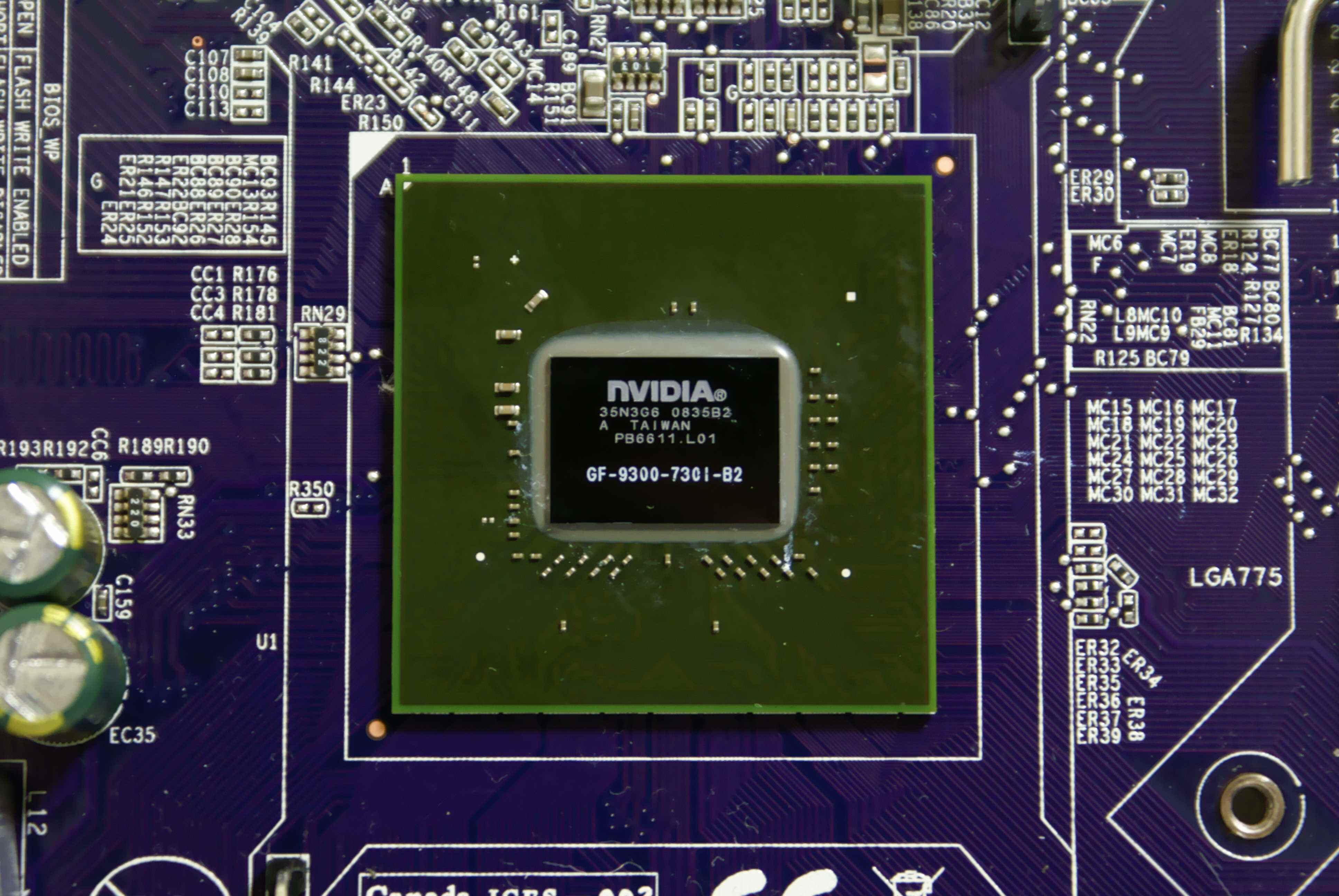 NVIDIA nFforce 730i GF-9300-730 I-B2